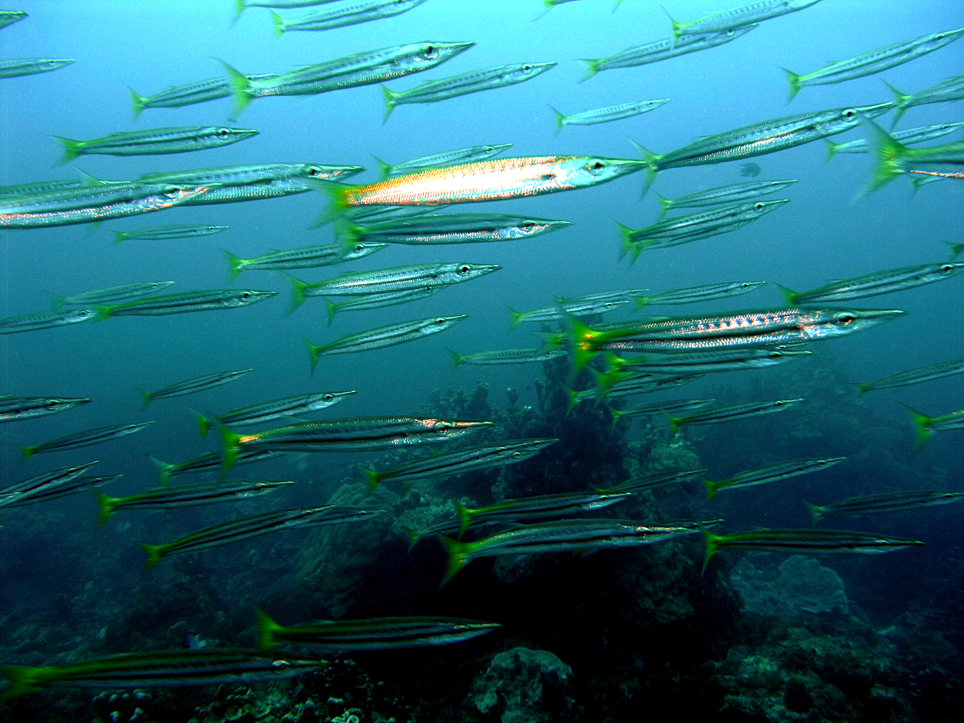 Image of Yellowtail barracuda. Sphyraena flavicauda. Taken off Dayang, Malaysia.